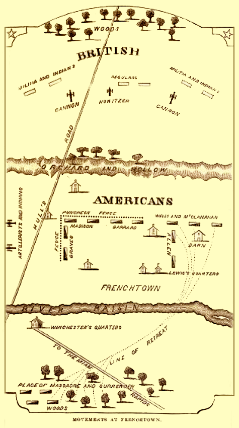 The situation of the troops before the Battle of Frenchtown.